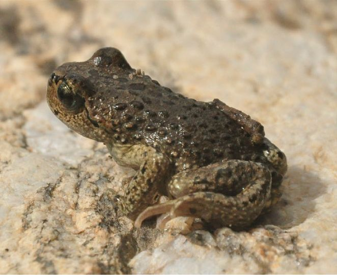 Scutiger boulengeri from Sikkim, India